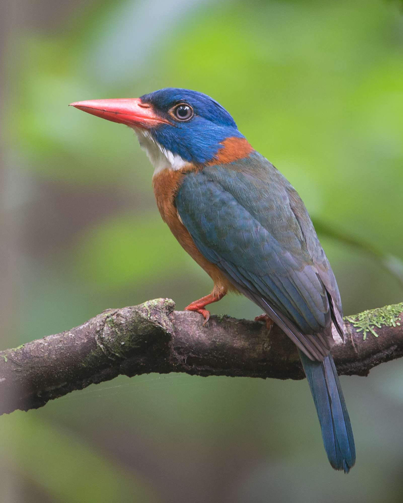 Male of Green-backed Kingfisher (Actenoides monachus) at Tangkoko, North Sulawesi